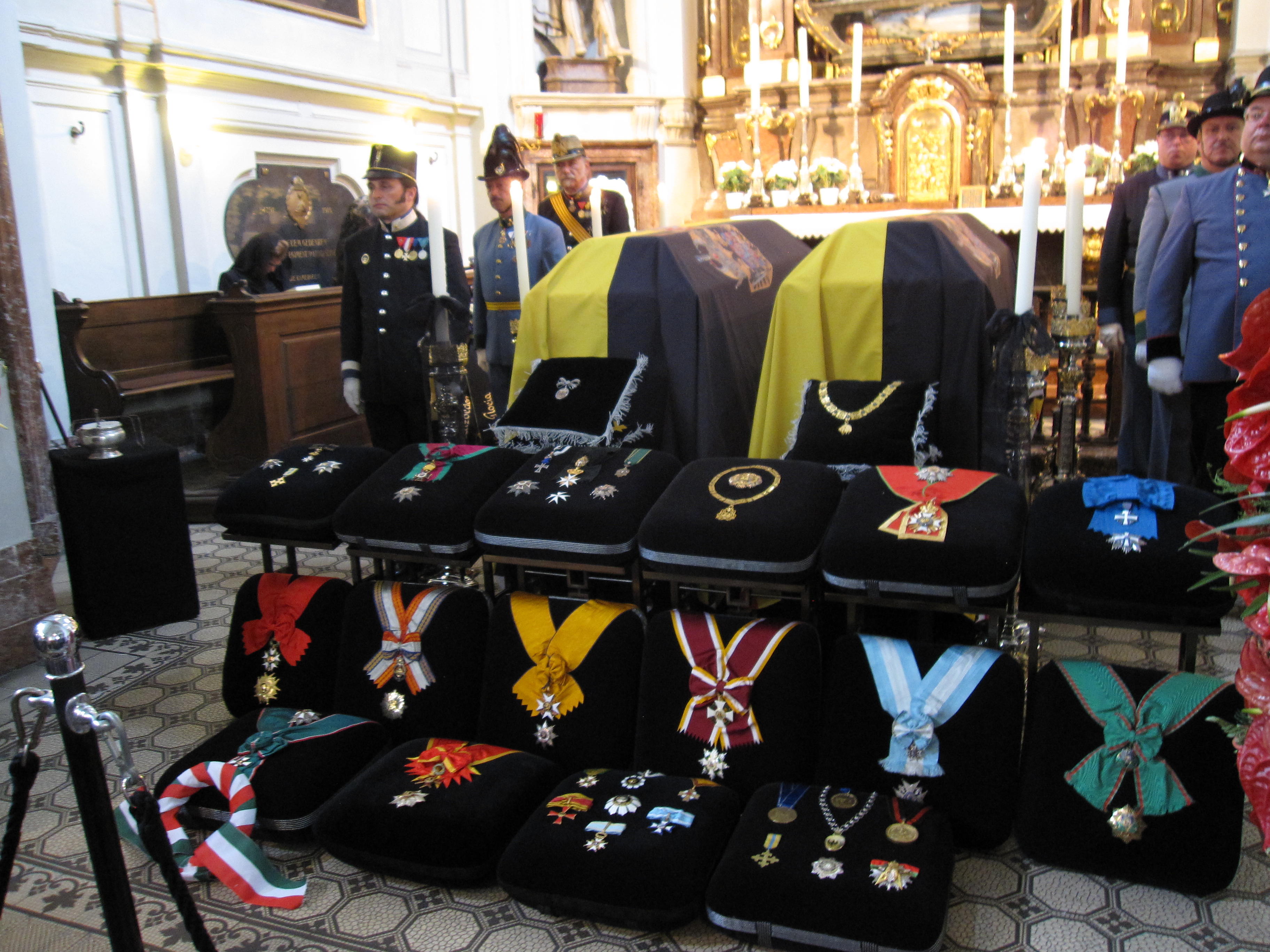 Lying in repose of Otto von Habsburg, heir to the Austrian and Hungarian thrones, and his wife Princess Regina of Saxe-Meiningen, at the Capuchin Church in Vienna on Friday, 15 July 2011. For a list of the orders, honours and decorations present, see here